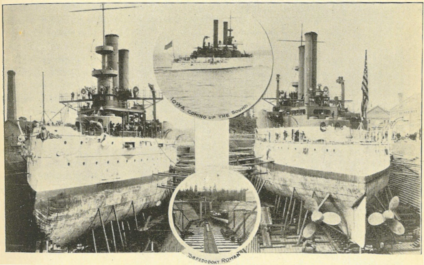 "In the Navy Yard of Puget Sound", in Seattle and the Orient (1900). This illustration consists of two side-by-side photos of ships in drydock and two circular insets between then. The insets are titled "Iowa coming up the Sound" (upper) and "Torpedoboat Rowan" (lower).